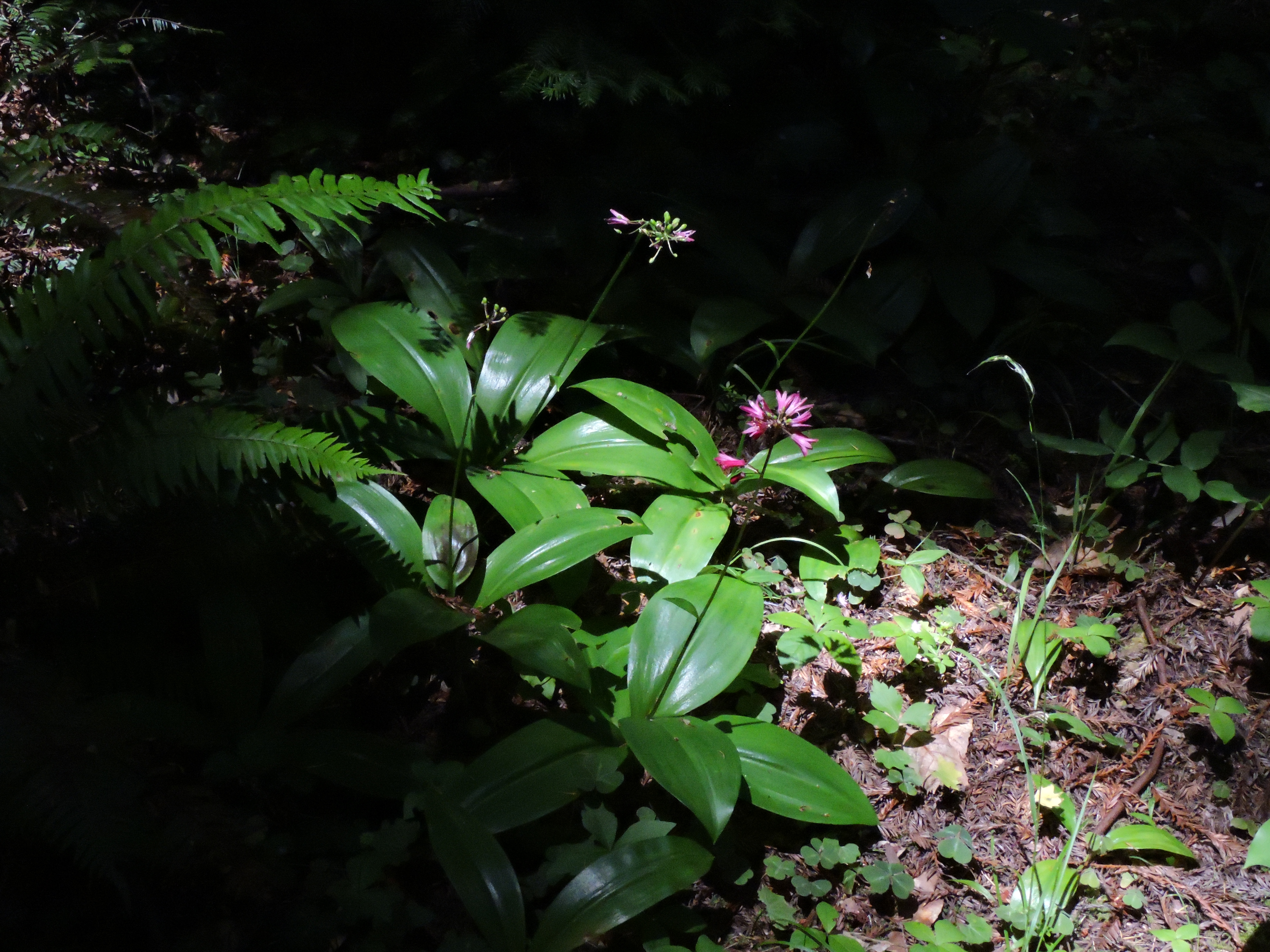 Clintonia andrewsiana, photo June 8, 2019, Rohner Park Redwood Forest, Fortuna, CA, USA